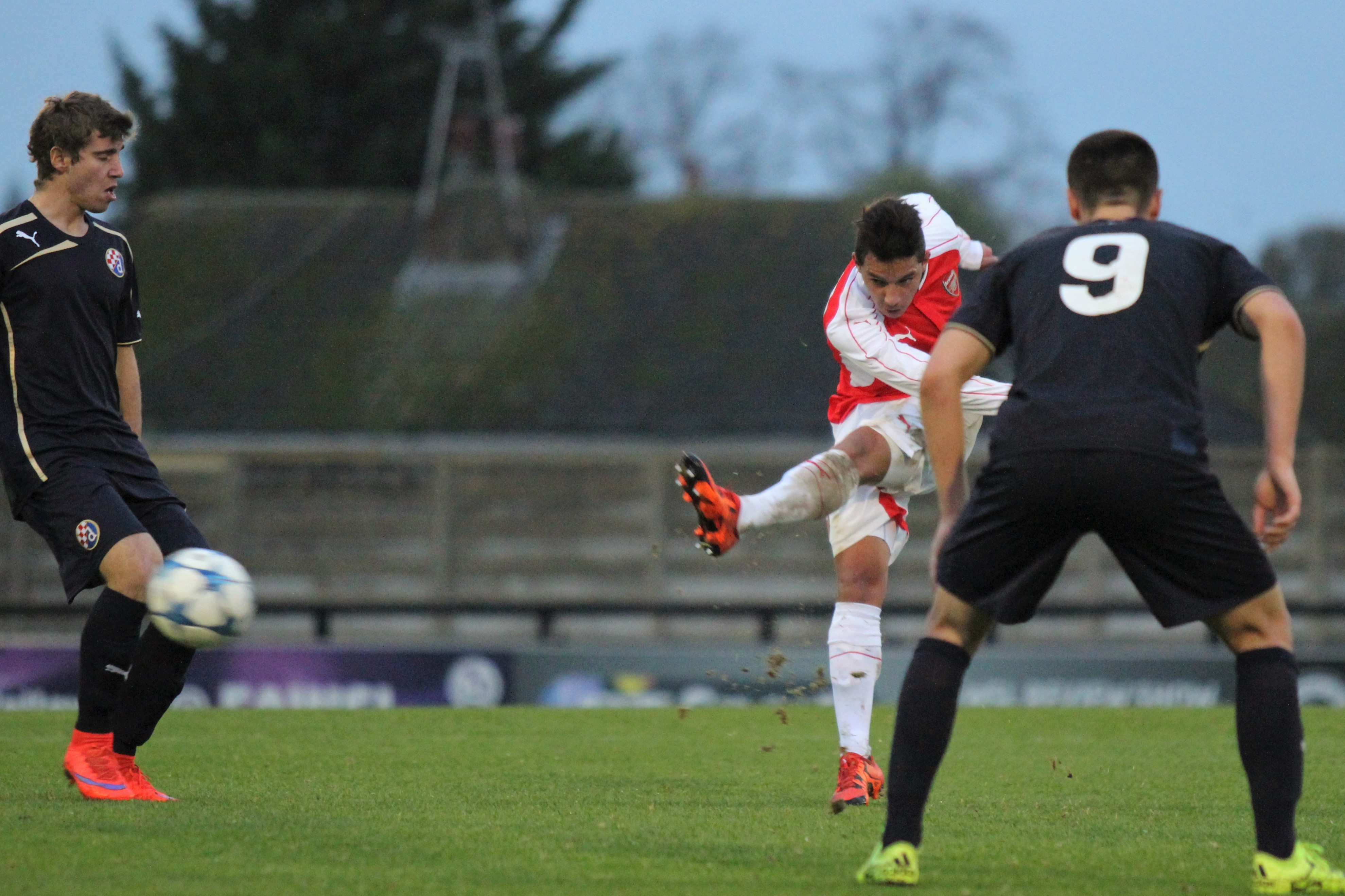 Ismaël Bennacer